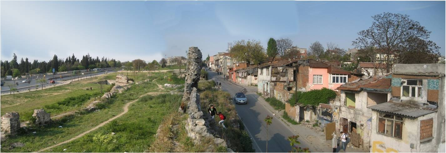 View of the old city wall separating Sulukule from a major road.